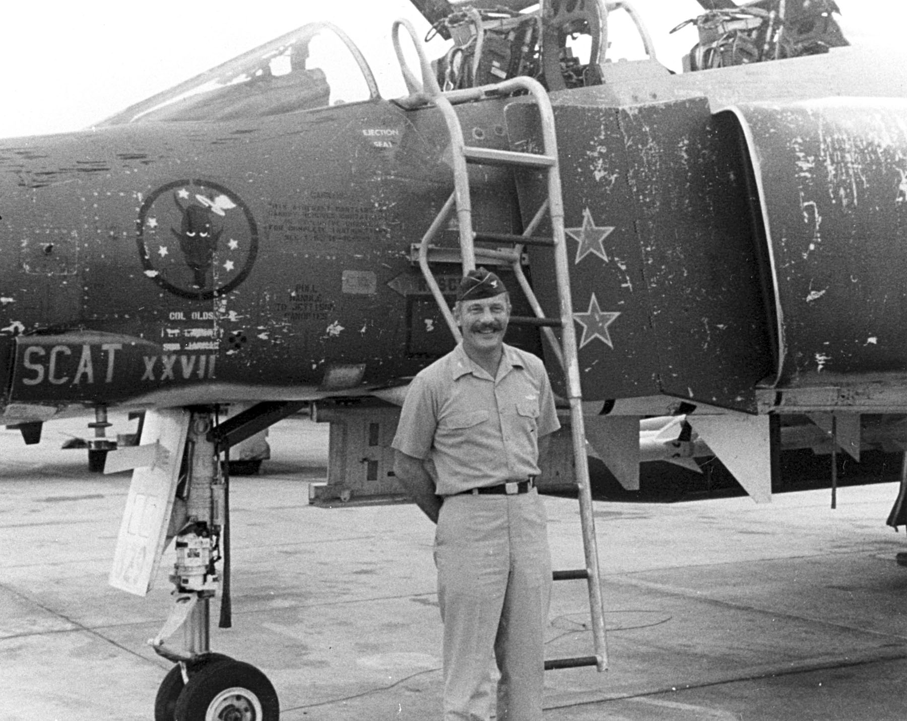 U.S. Air Force Colonel Robin Olds in front of a McDonnell Douglas F-4C Phantom II aircraft ("SCAT XXVII"). Olds commanded the 8th Tactical Fighter Wing at Ubon Royal Thai Air Force Base, Thailand, during the Vietnam War from September 1966 to September 1967. He shot down four North Vietnamese MiGs.